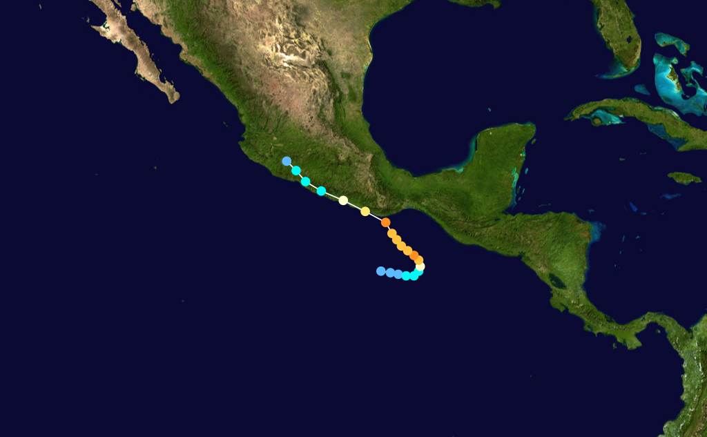 Hurricane Pauline (1997) track. Uses the color scheme from the Saffir-Simpson Hurricane Scale.